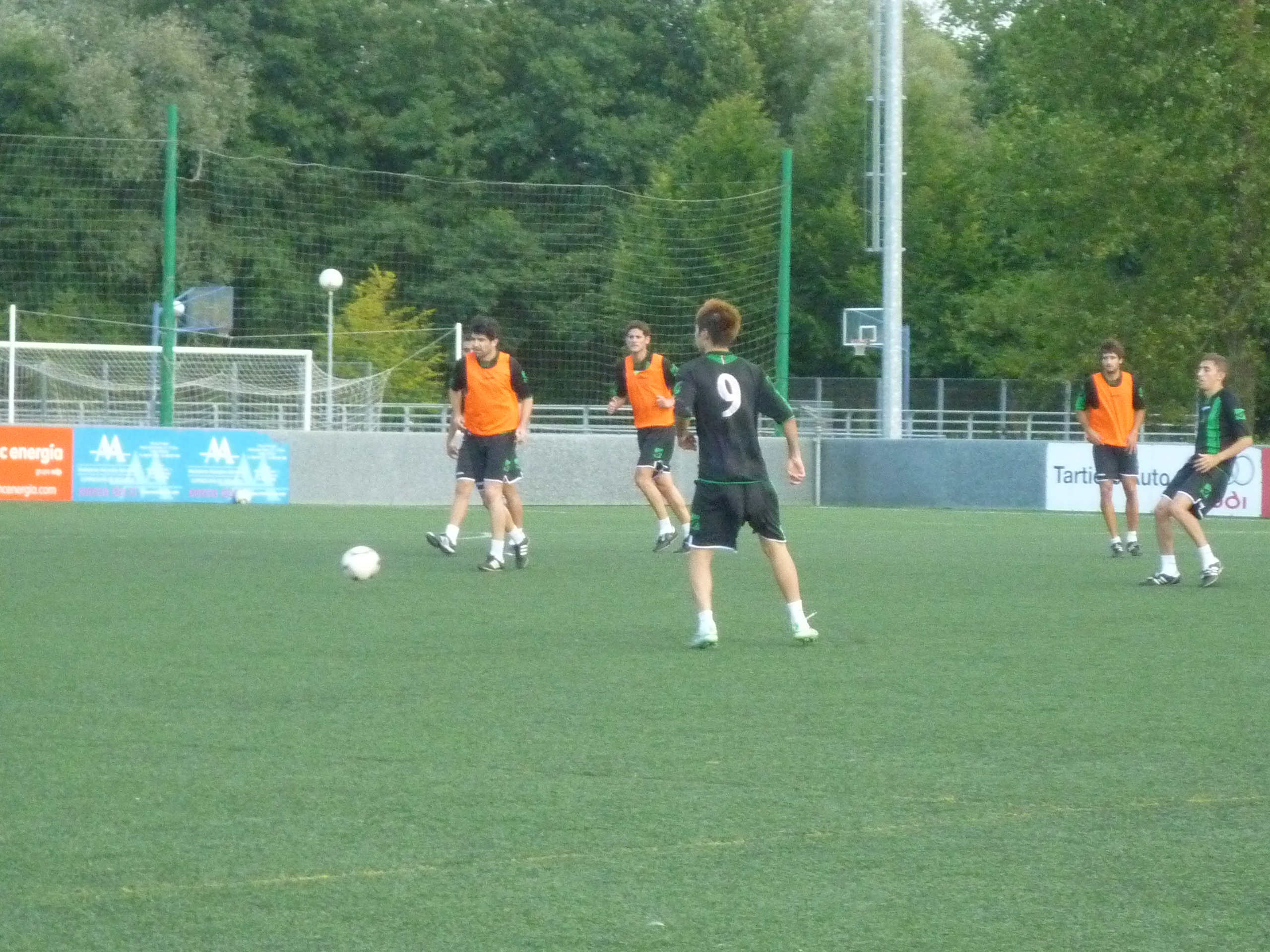 Entrenamiento de la Asociación Deportiva Universidad de Oviedo en el Club de Campo de La Fresneda